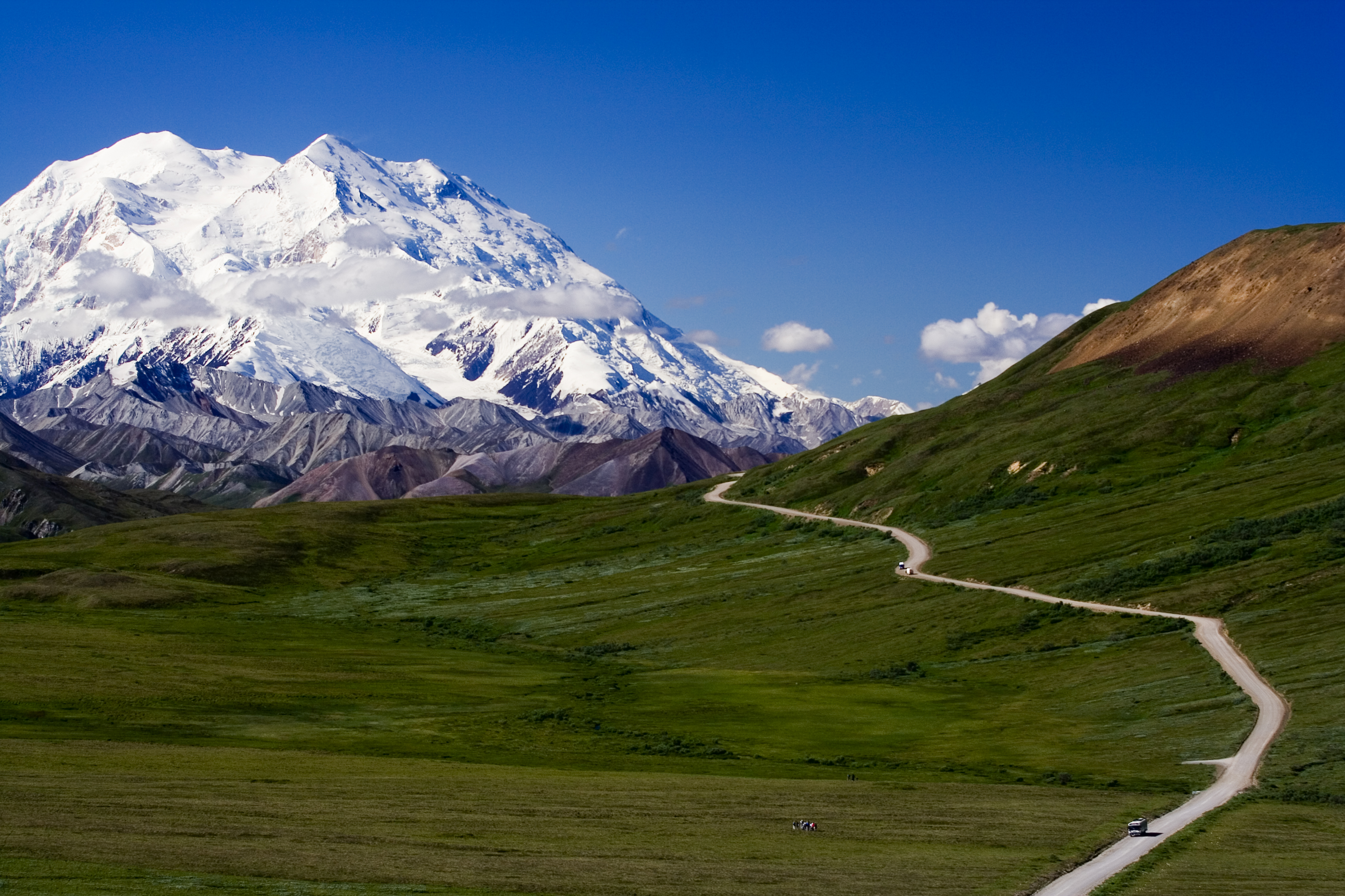 Down the valley towards Denali on this beautiful day, with the (one) park road wending its way. Similar view to this image , but without the manipulation.